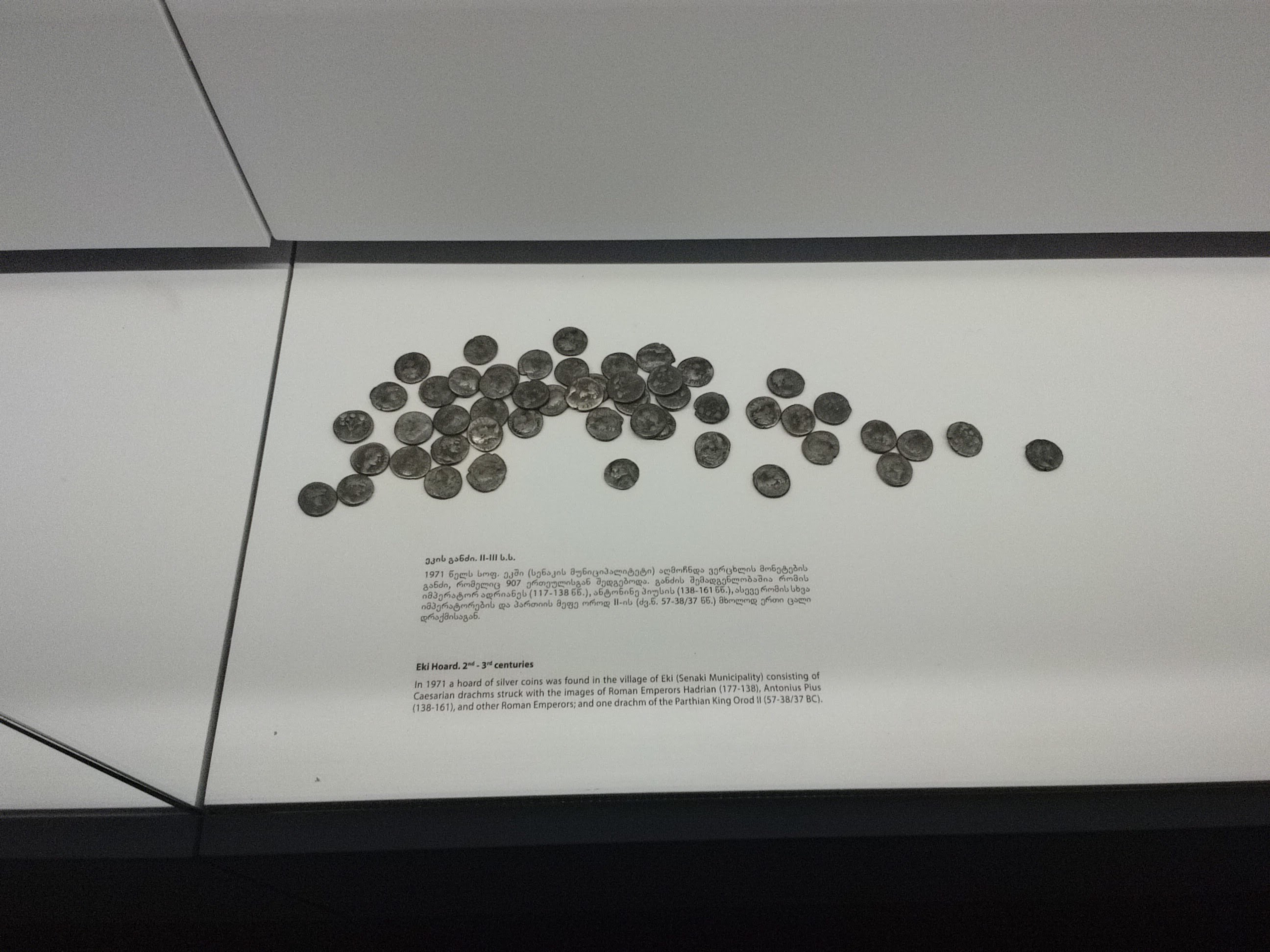 The Eki Hoard